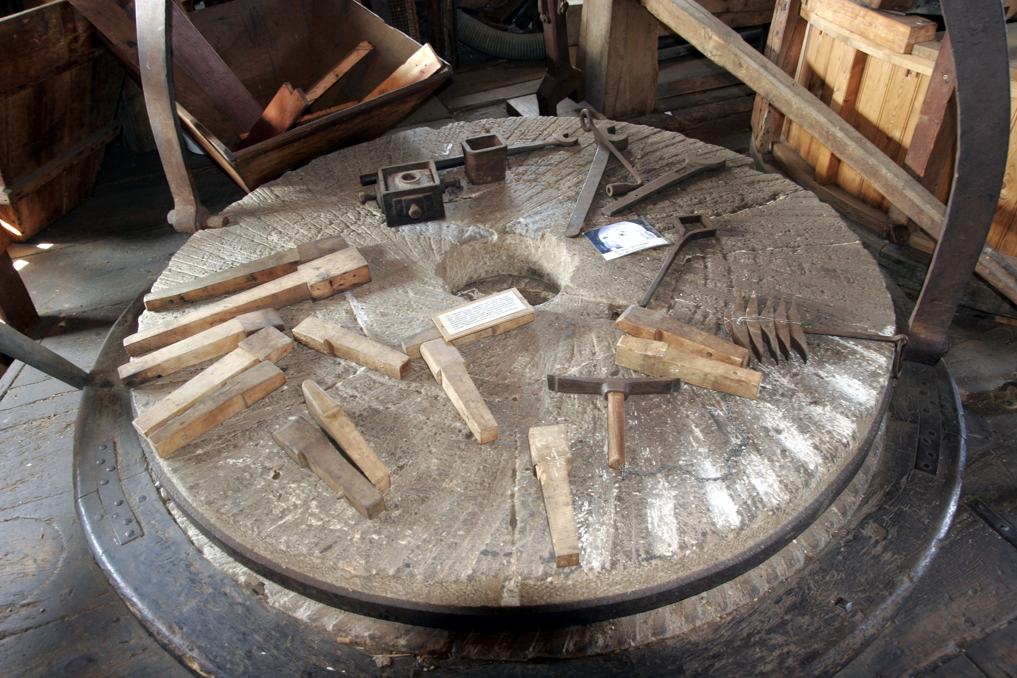 Millstone inside the Windmill of Varel (Germany)